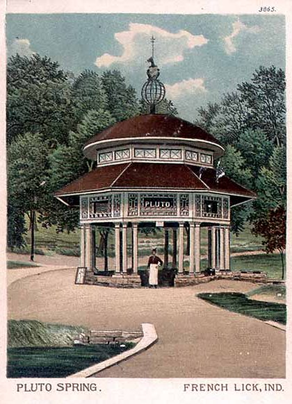 French Lick Springs—Pluto Spring — the source of famous Pluto Water in 1903. Located at the French Lick Springs Hotel, in French Lick, Indiana.